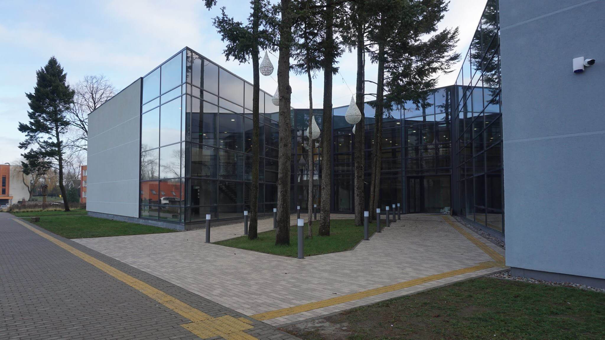 Motiejus Valančius Public Library in Kretinga